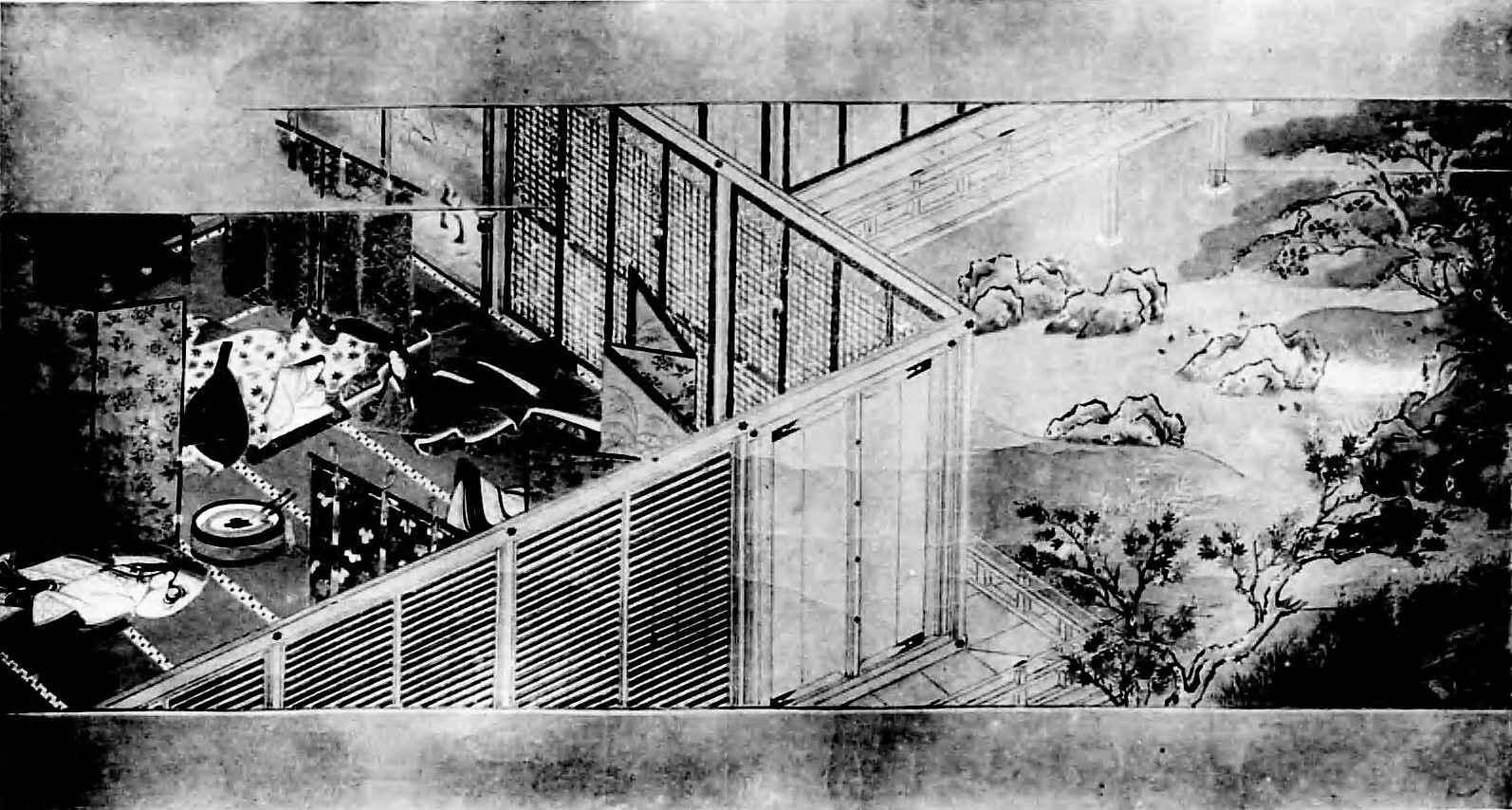 A part of "Kuwanomidera Engi Emaki" completed in 1532 (Important Cultural Property of Japan ) at Kuwanomidera, Omihachiman, Shiga prefecture.